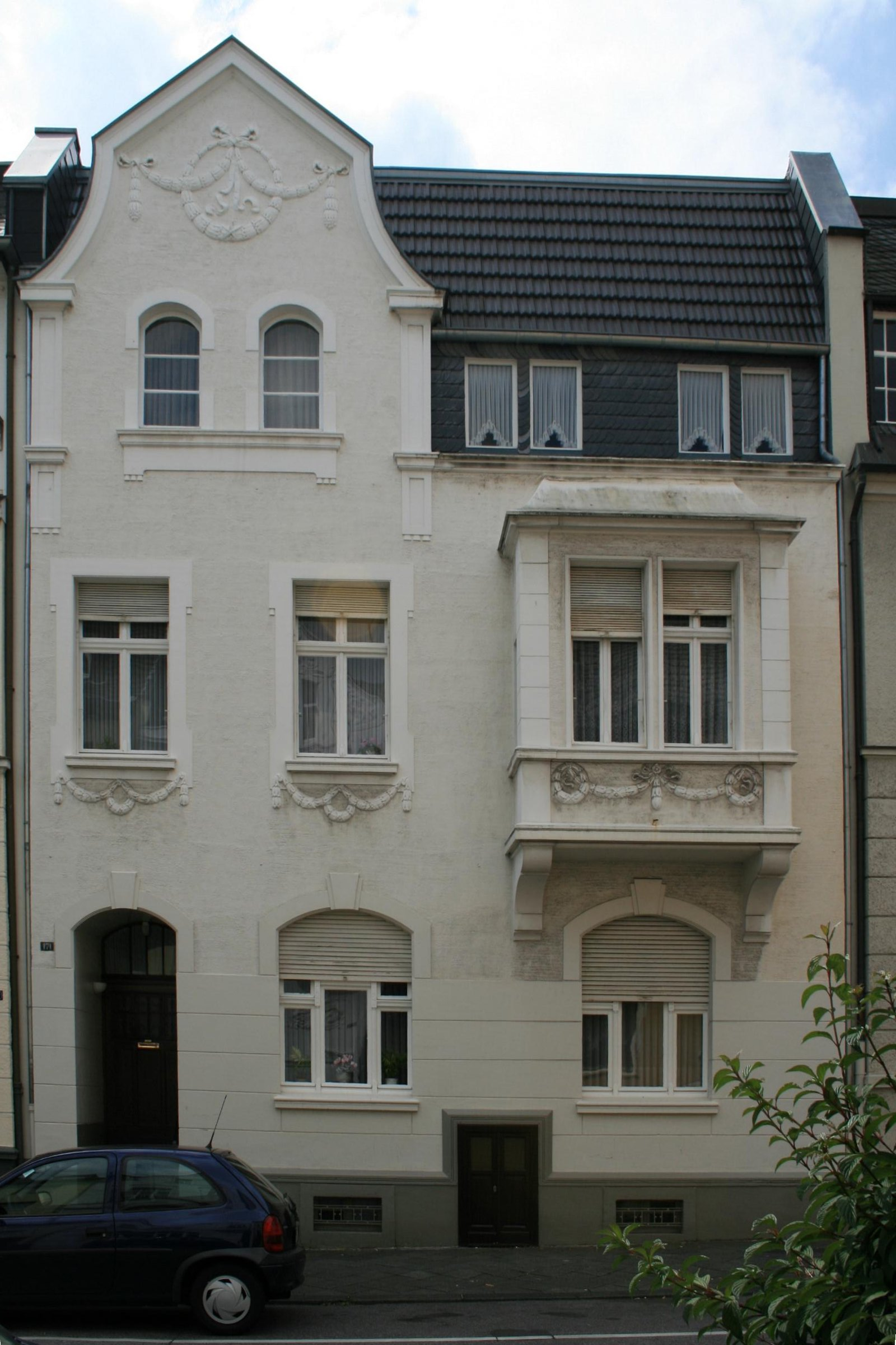 Cultural heritage monument No. L 040 in Mönchengladbach